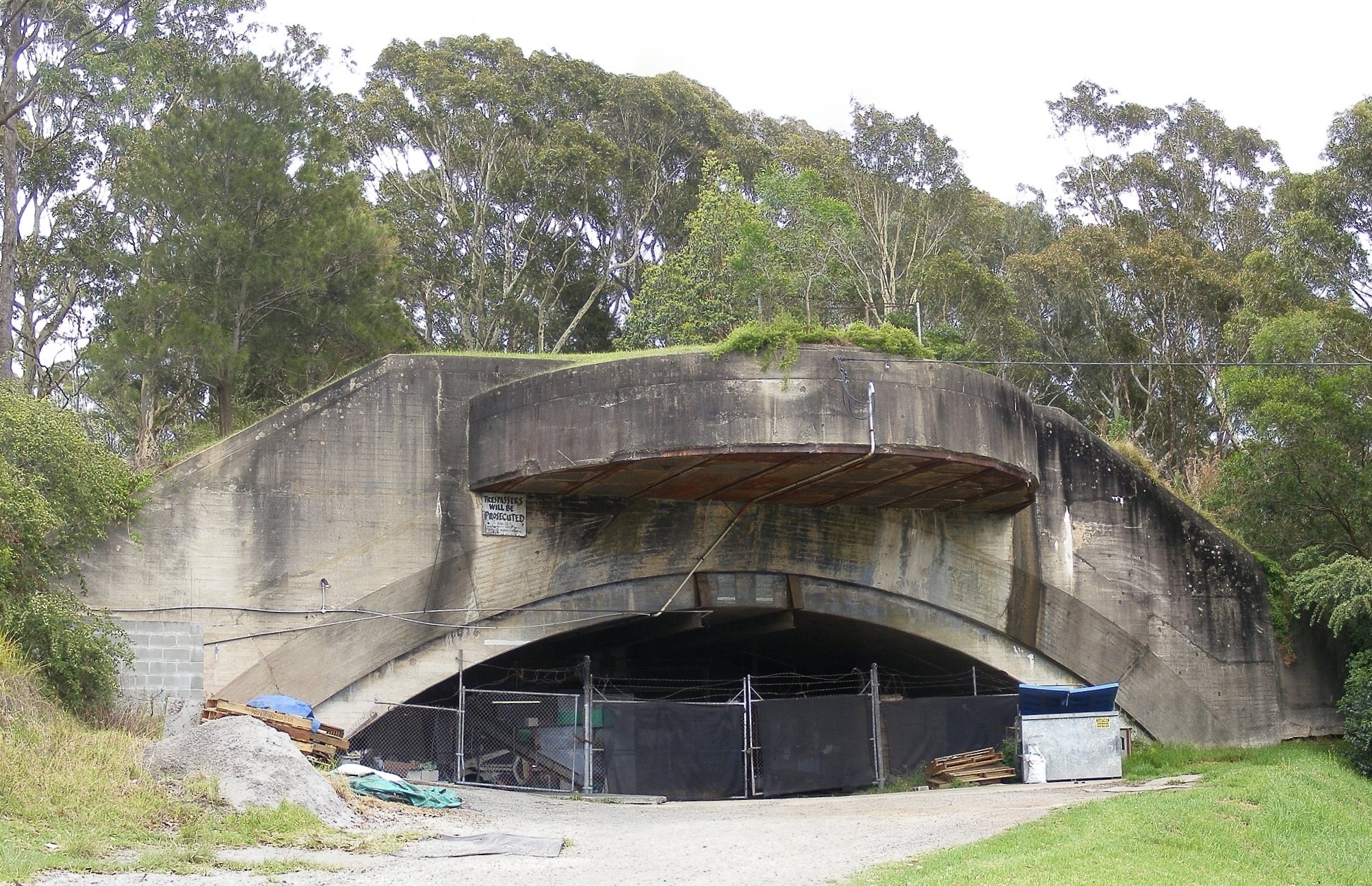 Port Kembla Drummond Battery Position One, part of the WWII Kembla Fortress when it mounted a 9.2 inch Mk X gun.